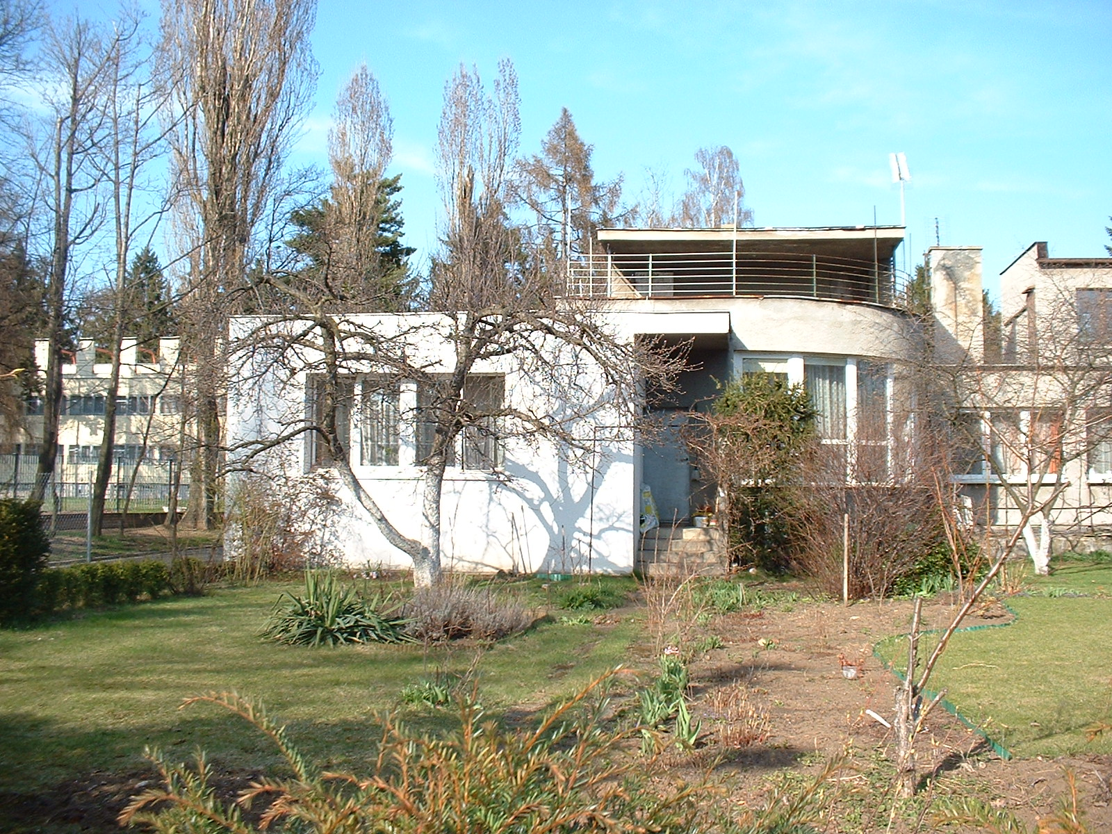 Wrocław, WUWA, Detached house No. 35 by Heinrich Lauterbach.